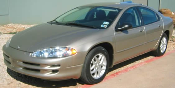 Information:Original author has given permission to allow this image to be released into the public domain